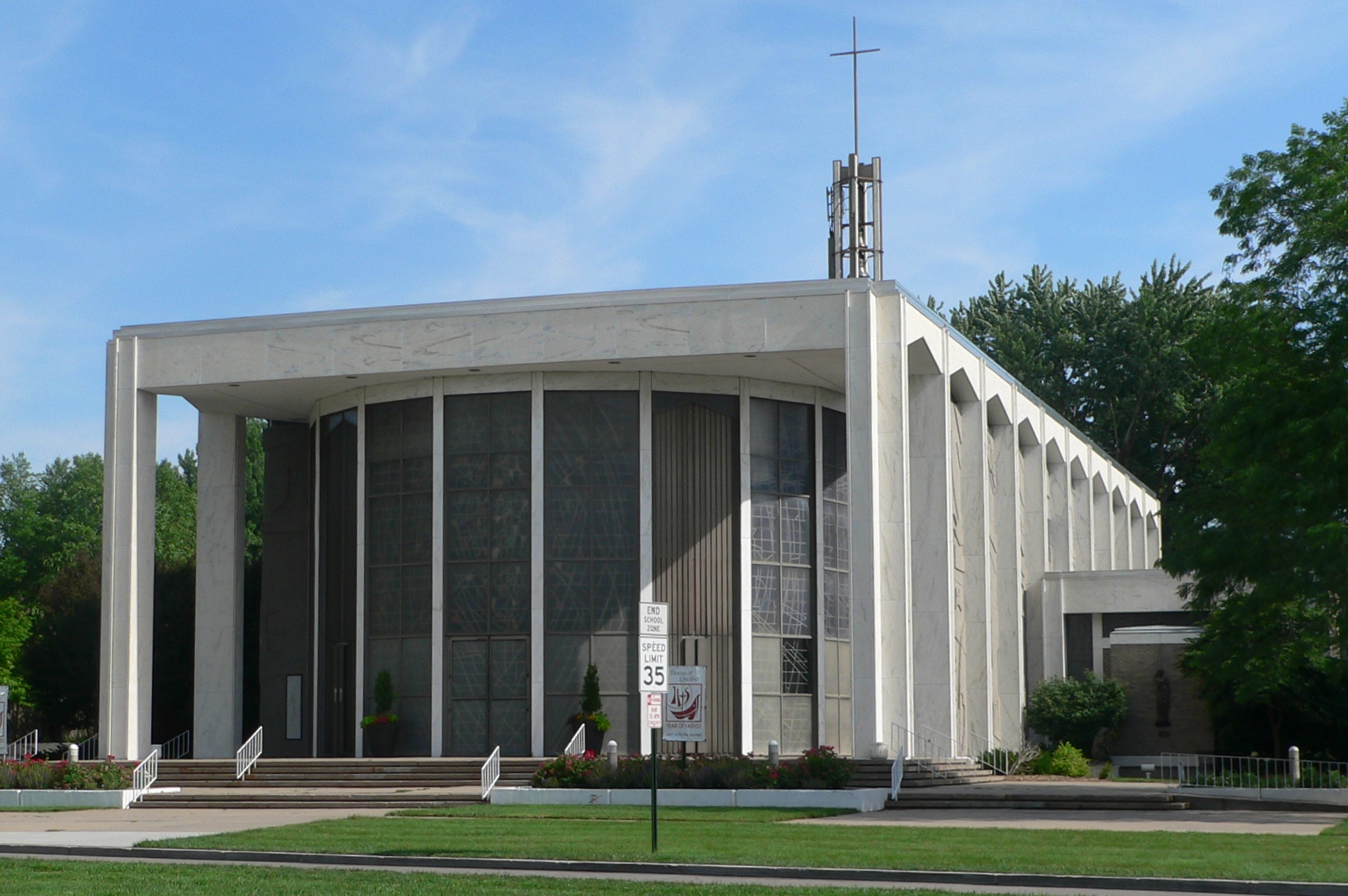 Cathedral of the Risen Christ, located at 3500 Sheridan Boulevard in Lincoln, Nebraska; seen from the south-southeast, across Sheridan.